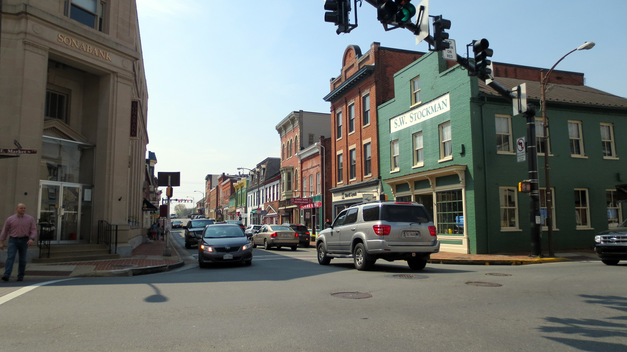 Photo taken at corner of king and market streets